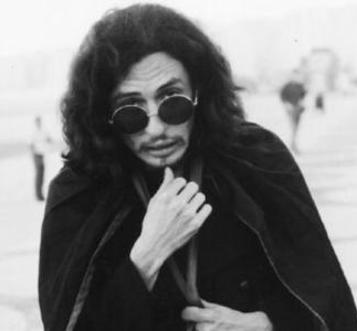 Torquato Neto in movie "Nosferatu no Brasil".